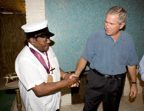 President George W. Bush shakes the hand of legendary Fats Domino. Domino is wearing a New Orleans brass band musician's cap on his head and a National Medal of Arts around his neck. The President presented the medal to Domino on Tuesday, Aug. 29, 2006, at the musician's home in the Lower 9th Ward of New Orleans. The medal was a replacement medal for the one -- originally awarded by President Bill Clinton -- that was lost in the flood waters of Hurricane Katrina.